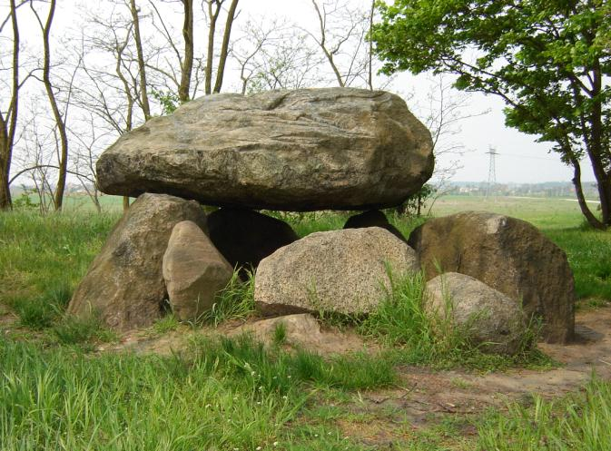 Dolmen in Körbelitz, Saxony-Anhalt